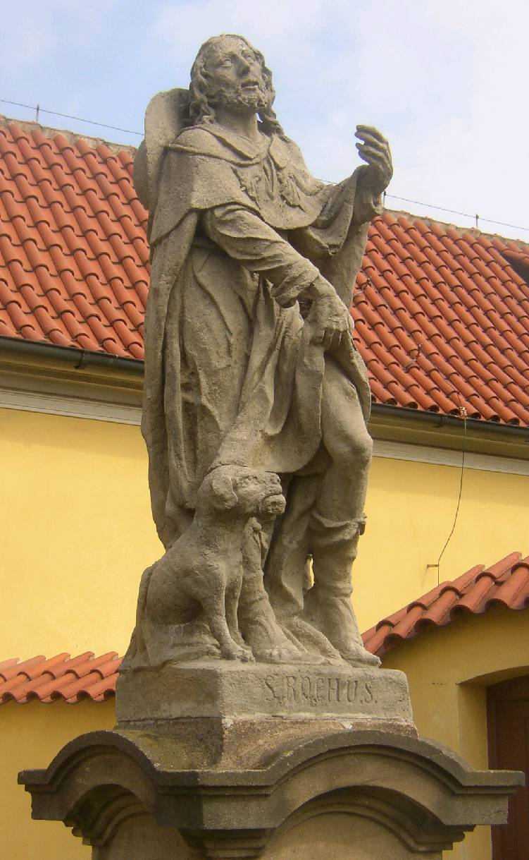 Prague-Řepy, Czech Republic, Saint Roch (Rochus) statue from 1751 located in front of church of Our Lady the Victorious (kostel Panny Marie Vítězné) at Bílá Hora (west suburb of Prague).